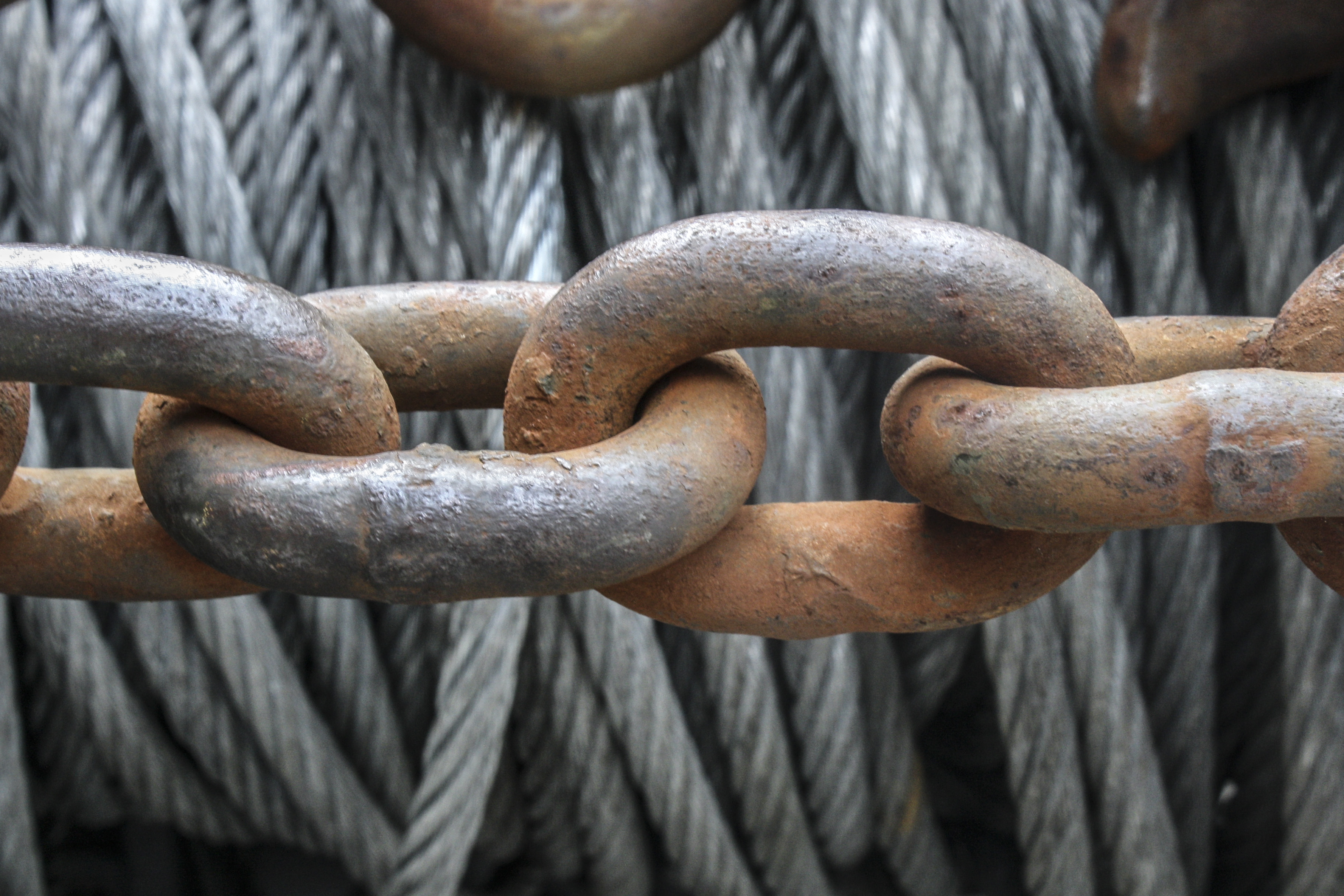 Close up shot of chain and tow cable on front of vehicle.